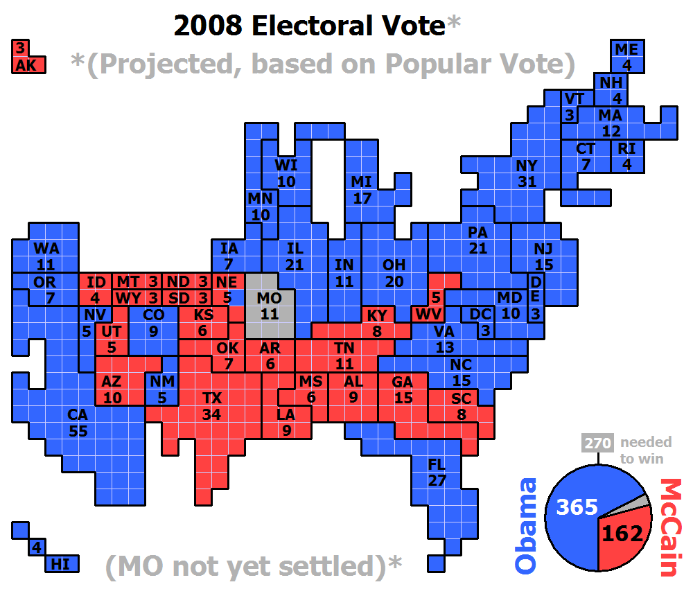 Cartogram of the projected 2008 Electoral Vote for US President (based on popular vote) with each square representing one electoral vote. Nebraska, being one of two states that are not winner-take-all, for the first time had its votes split, with NE-2 projected for Obama and the rest of the state for McCain. The population density of the 50 states varies by three orders of magnitude (from NJ with nearly 1,200 people per square mile, to AK with roughly 1 1/4 people per sq mi). Because of that huge variation, a regular map of the US that is typically used to present electoral vote results can convey a very skewed impression of the outcome where sparsely populated states appear overrepresented and densely populated states appear underrepresented. The cartogram approach of this image eliminates that problem by presenting the area of each state in an exact one-to-one correspondence with its number of electoral votes. But this is achieved at the cost of introducing distortions to the actual shape of each state and their positioning in relation to each other.